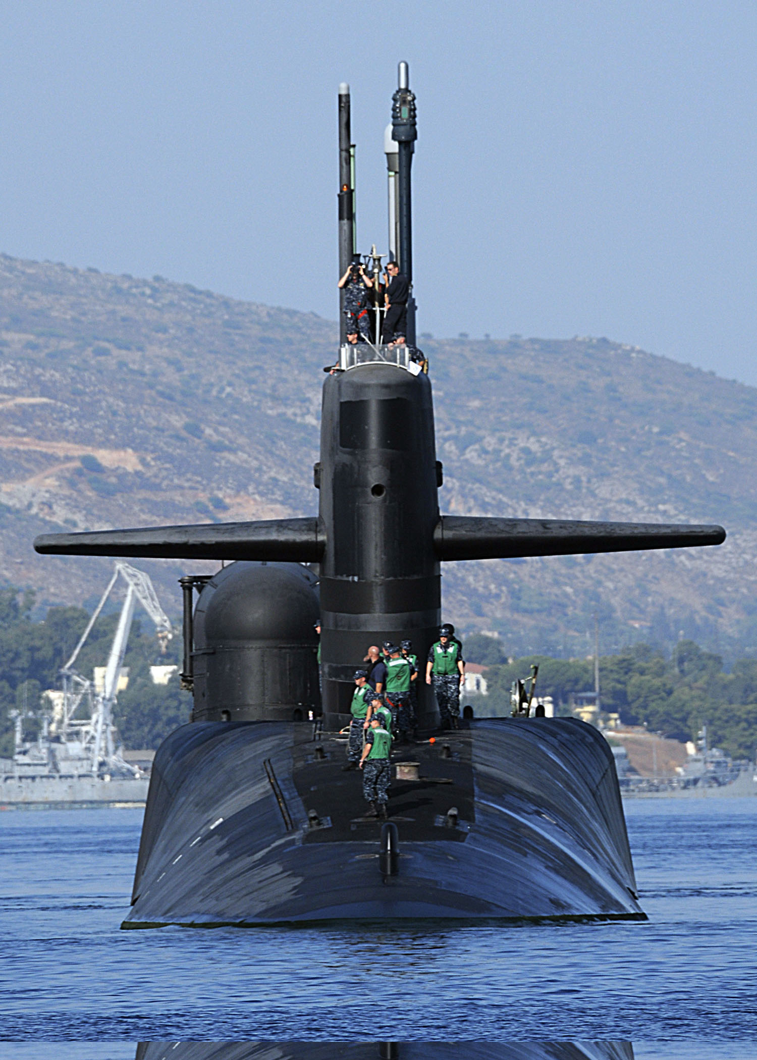 The Ohio-class guided-missile submarine USS Georgia (SSGN 729) arrives for a routine port visit to Souda Bay.